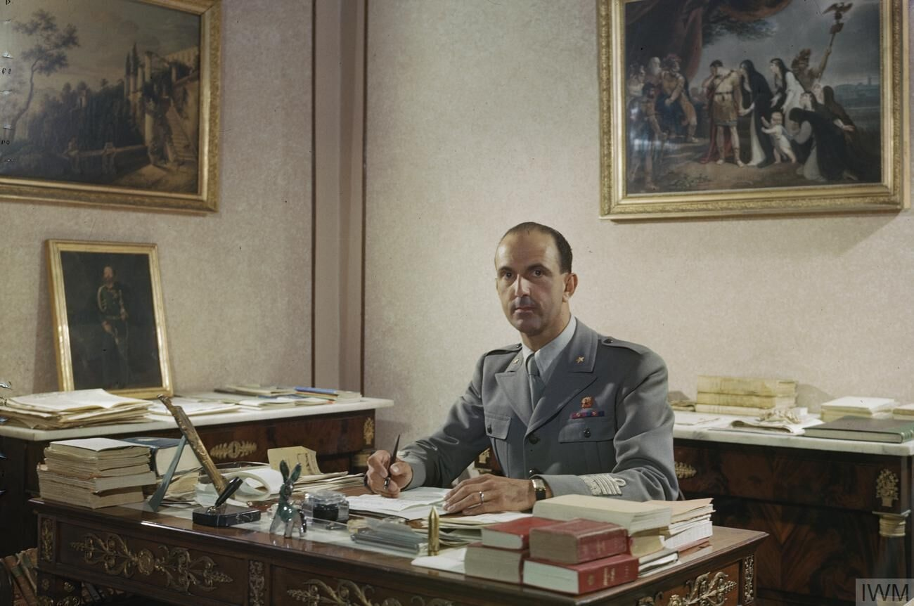 Hrh Prince Umberto of Italy, May 1944 HRH Prince Umberto at his desk in the study of his villa at Naples.